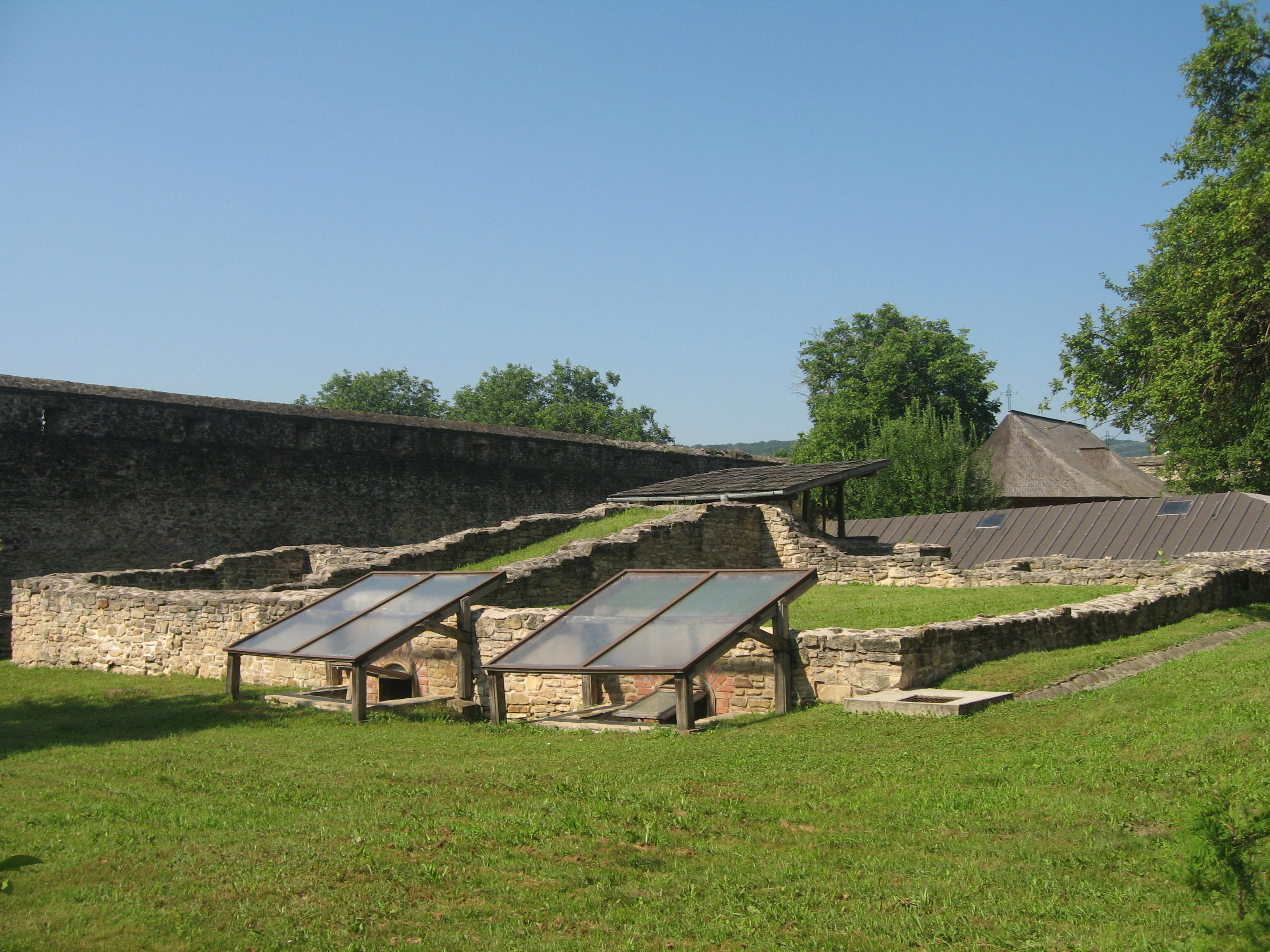 Probota Monastery 04